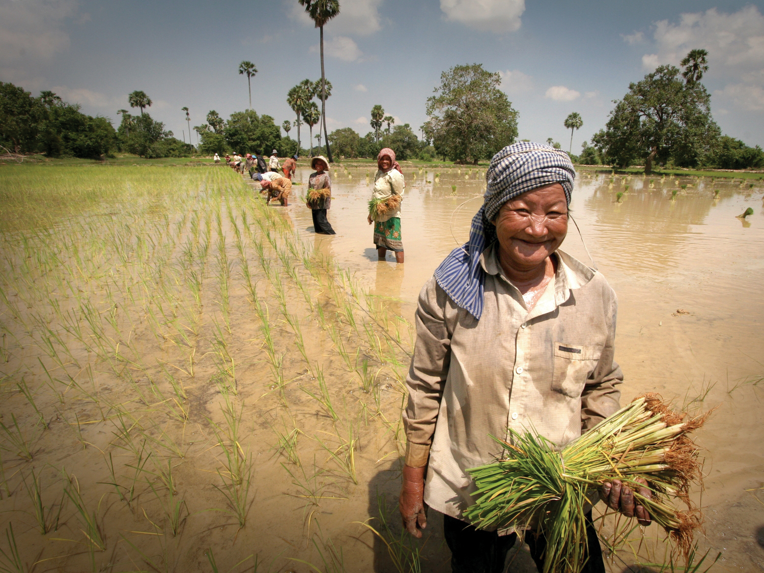 A group of women plant paddy rice seedlings in a field near Sekong, Laos. 2007.